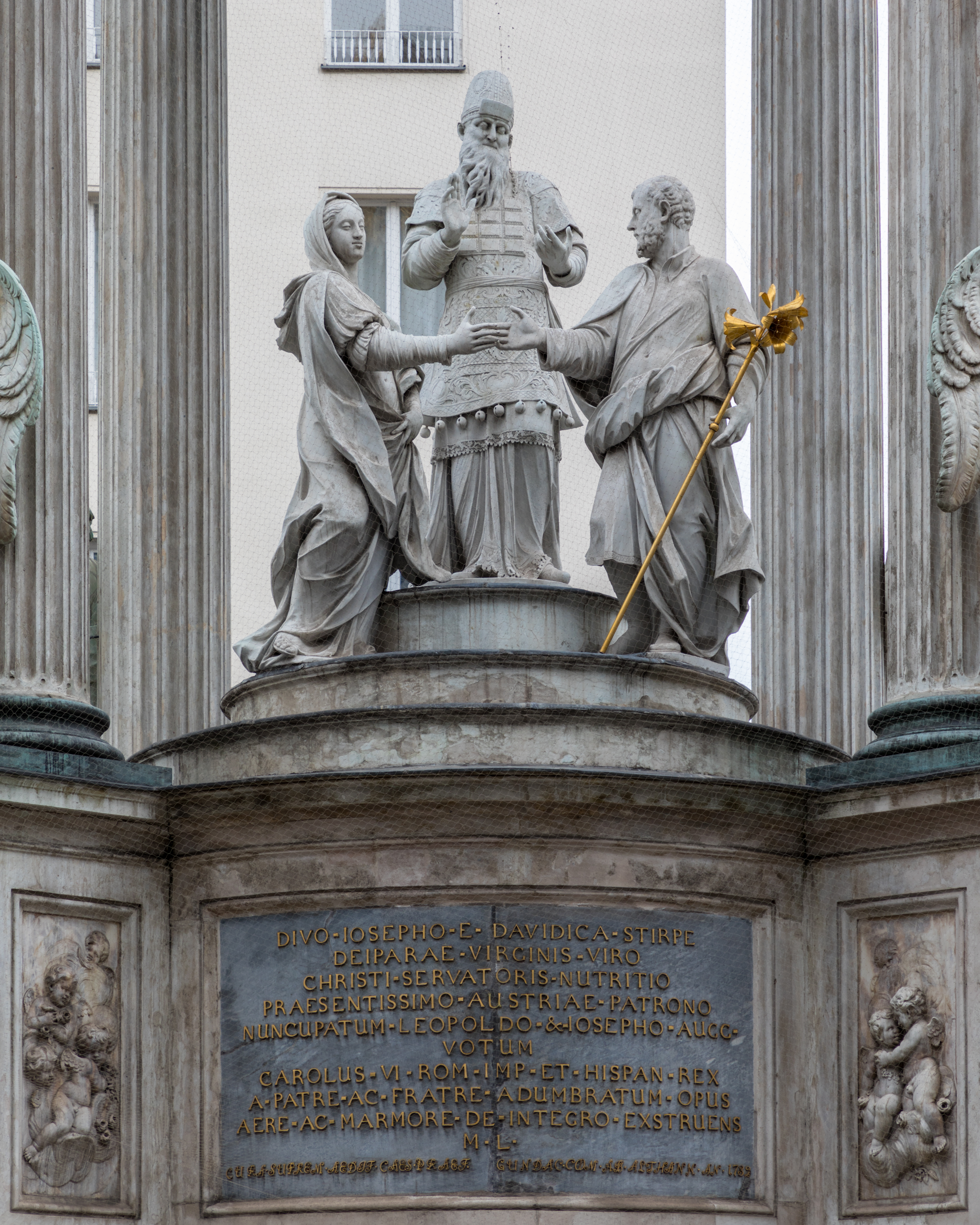 Vermählungsbrunnen , Vienna, Austria Sculpture TitleVermählungsbrunnenArtistJohann Bernhard Fischer von ErlachDate14 April 1732